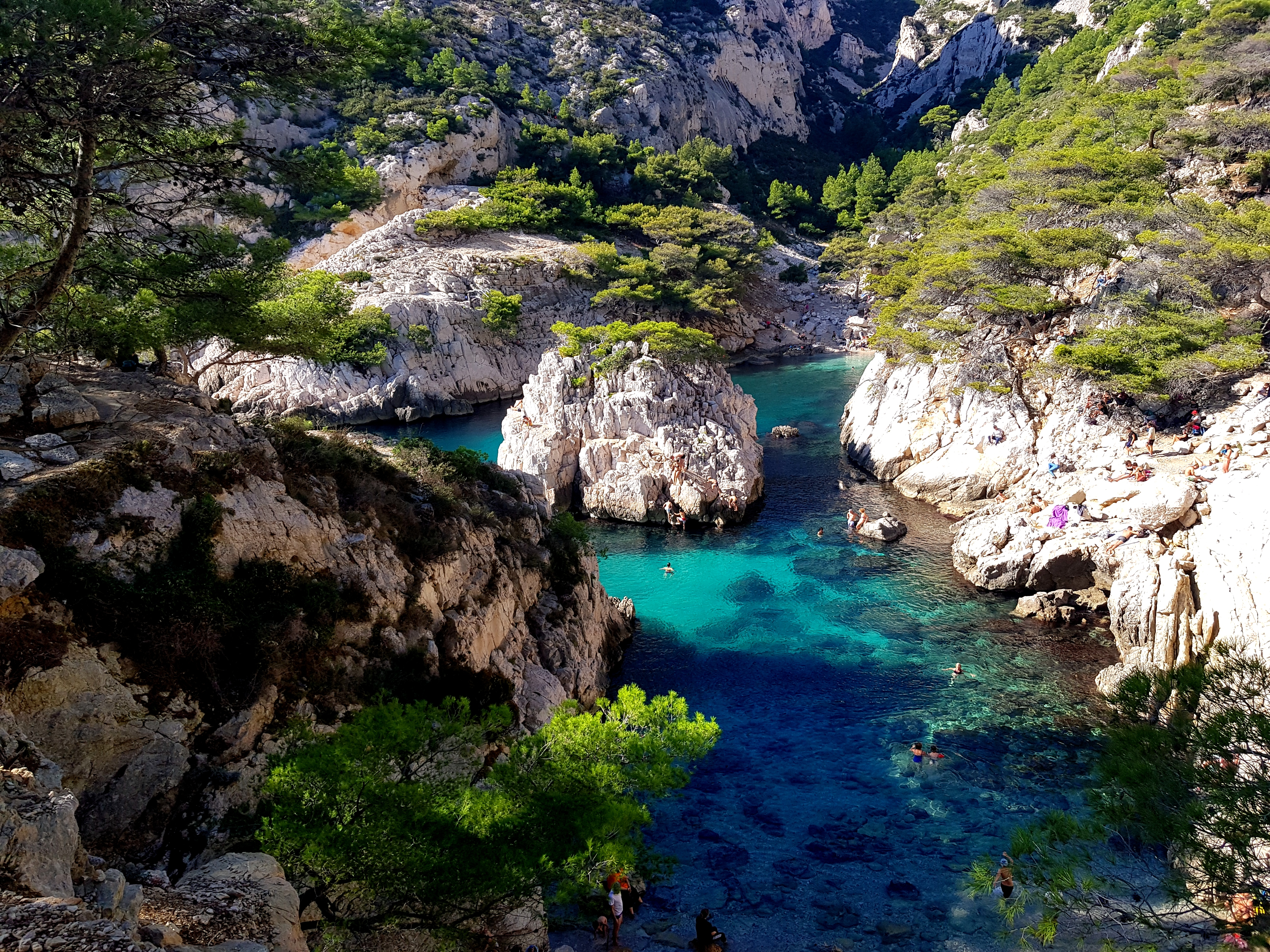 A beautiful sight at the Calanques National Park, Marseille, France